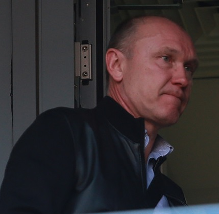 Sergey Rodionov watching a game of FC Spartak Moscow against PFC CSKA Moscow.